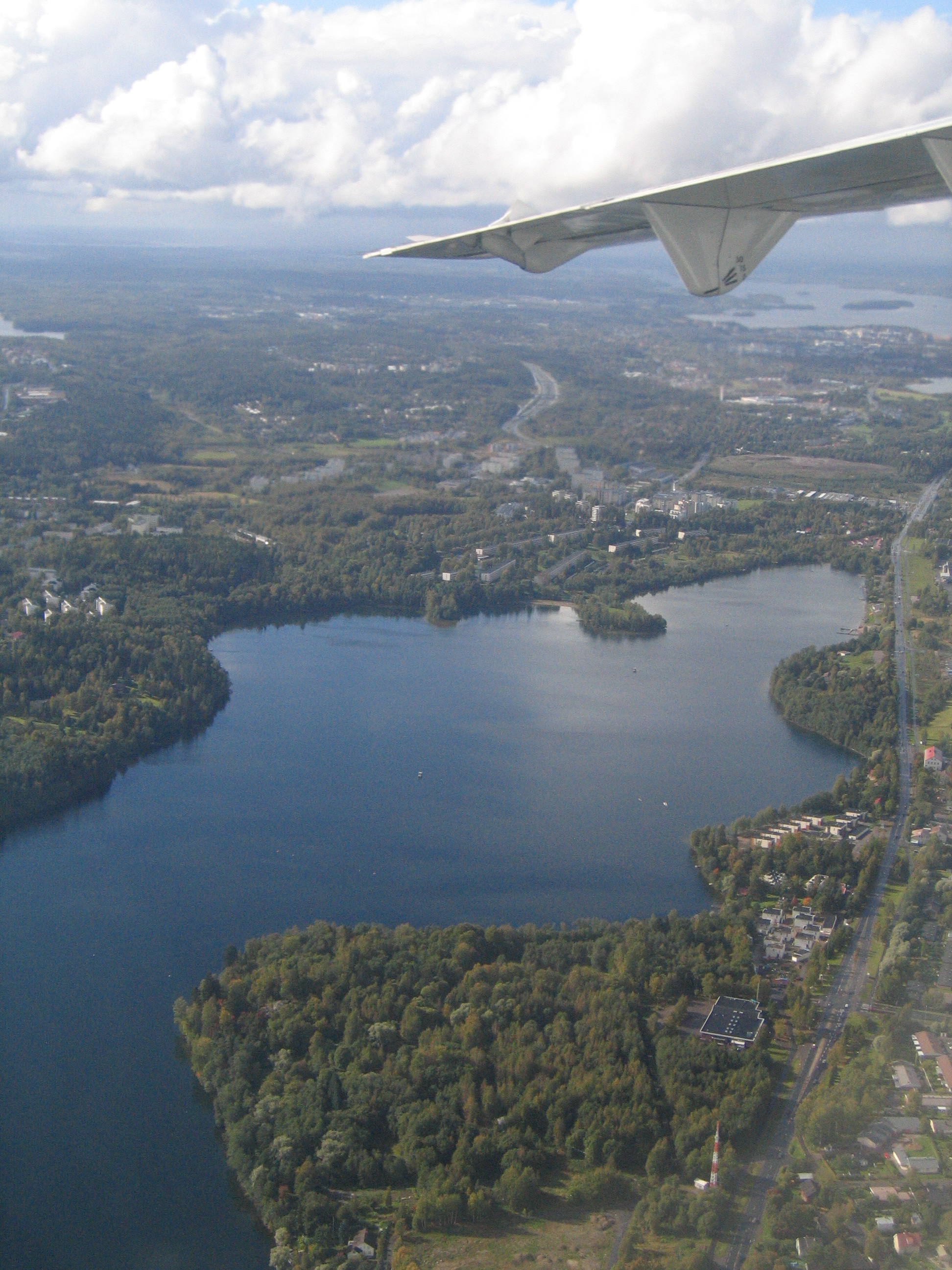 Kaukajärvi, Tampere, Finland from the air in September 2007. Photo taken towards West. On right hand, Kangasalantie, in the middle of the photo, Jyväskylä motorway (VT 9)